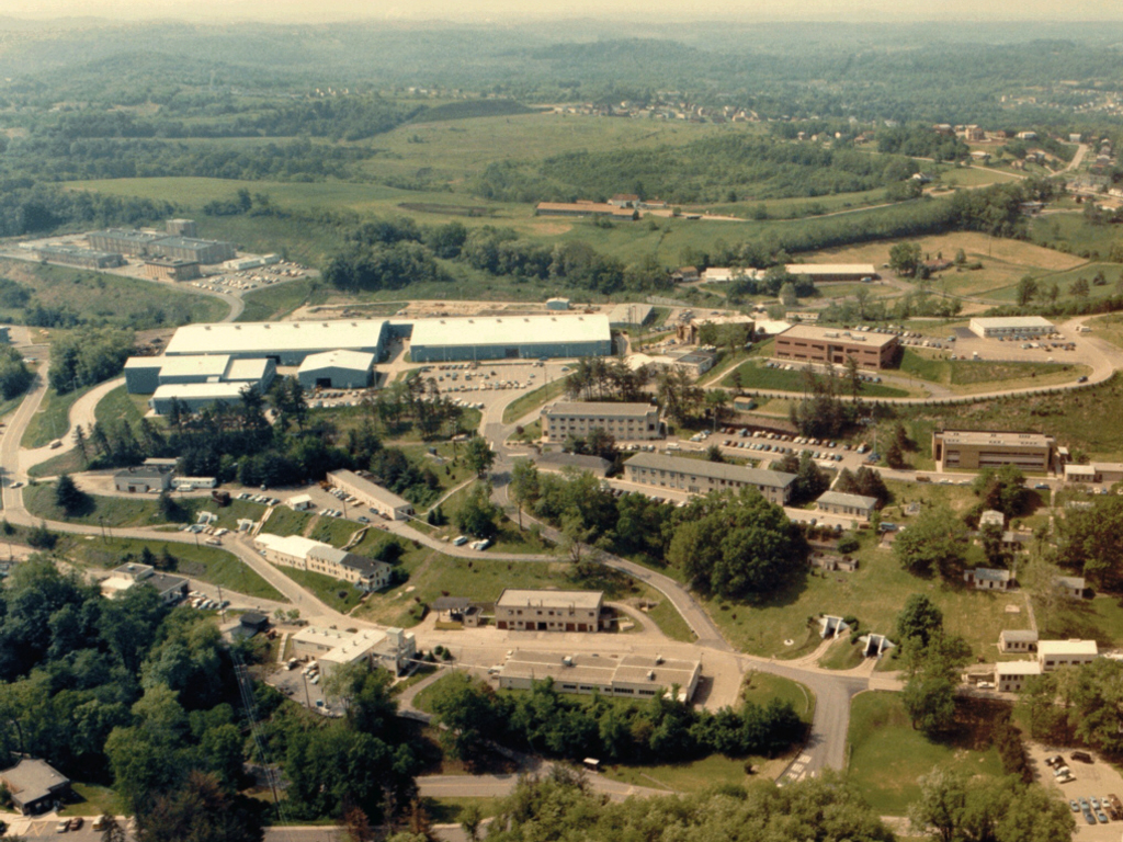 Aerial view of the National Institute of Occupational Health and Safety's laboratory in Bruceton, Pennsylvania near Pittsburgh